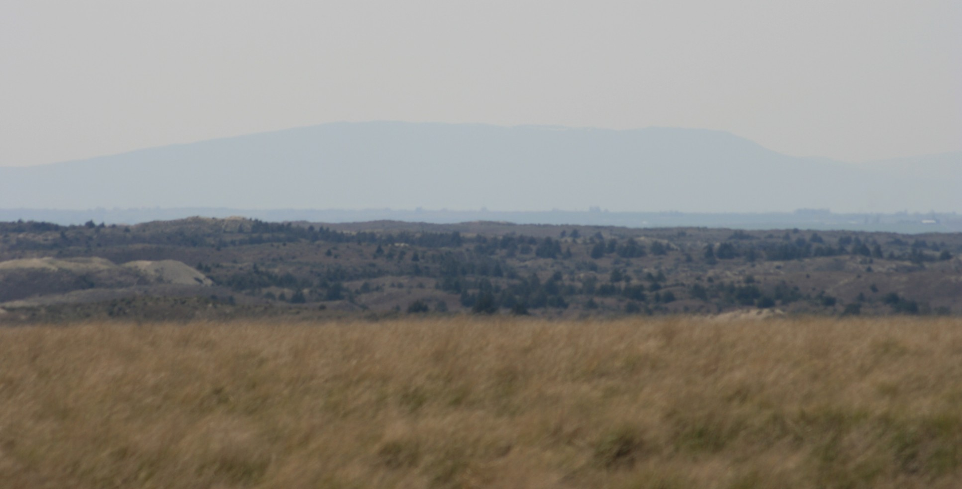 Juniper Dunes Wilderness — in central Washington (state).